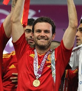 Mata with 2012 Euro cup